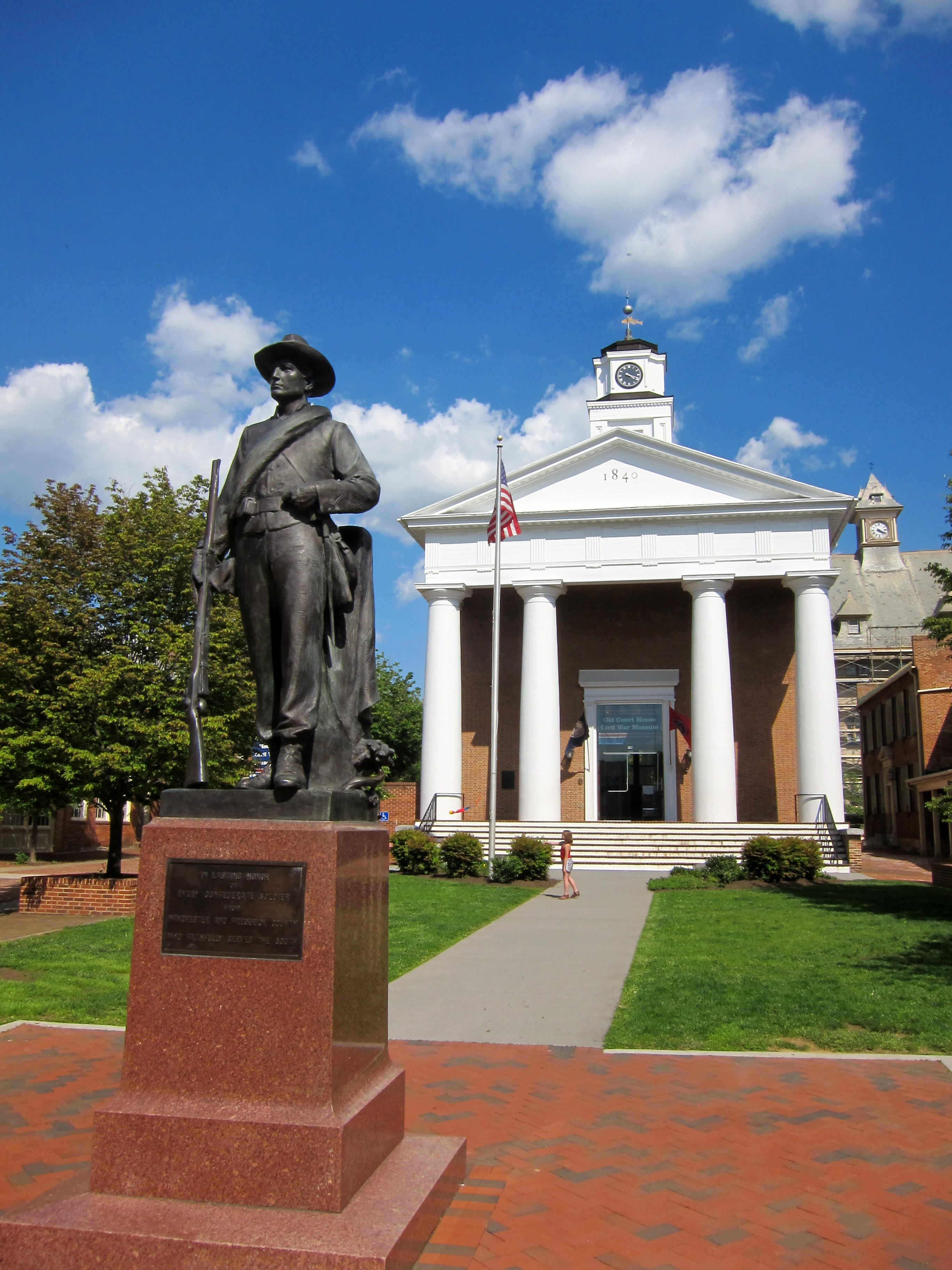 The former Frederick County Courthouse in Winchester, Virginia, United States.